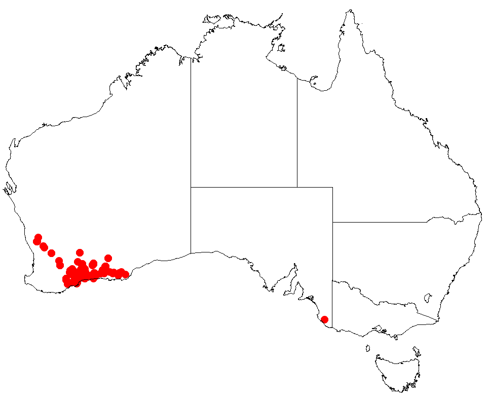 Hakea commutata Occurrence data downloaded from Australasian Virtual Herbarium on 22 November 2018 using